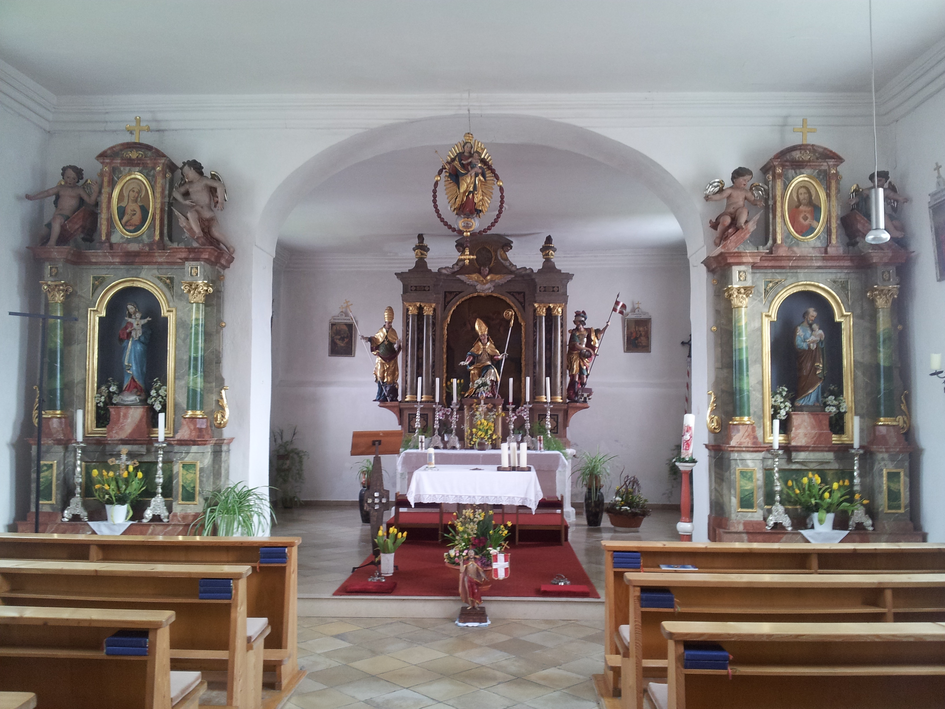 Interior of the Catholic Church St. Valentin (Gerlhausen)